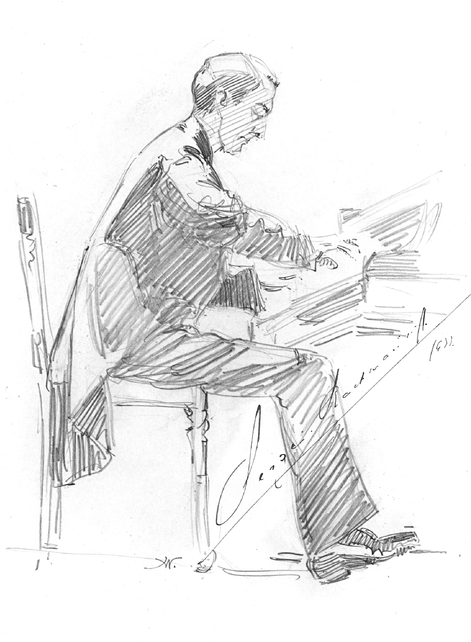 Sergei Rachmaninov athe Palais de Beaux-Arts In Brussels, 3 May 1933 pencil on paper 22.8 x 16.8 cm signed l.c.:H.W. signed by performer c.r.: Sergei Rachmaninoff / 1933 3 May 1933